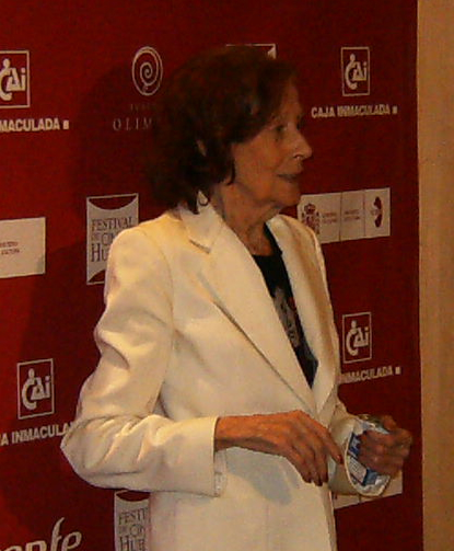 Mariví Bilbao in the International Huesca Film Festival (14/06/08).